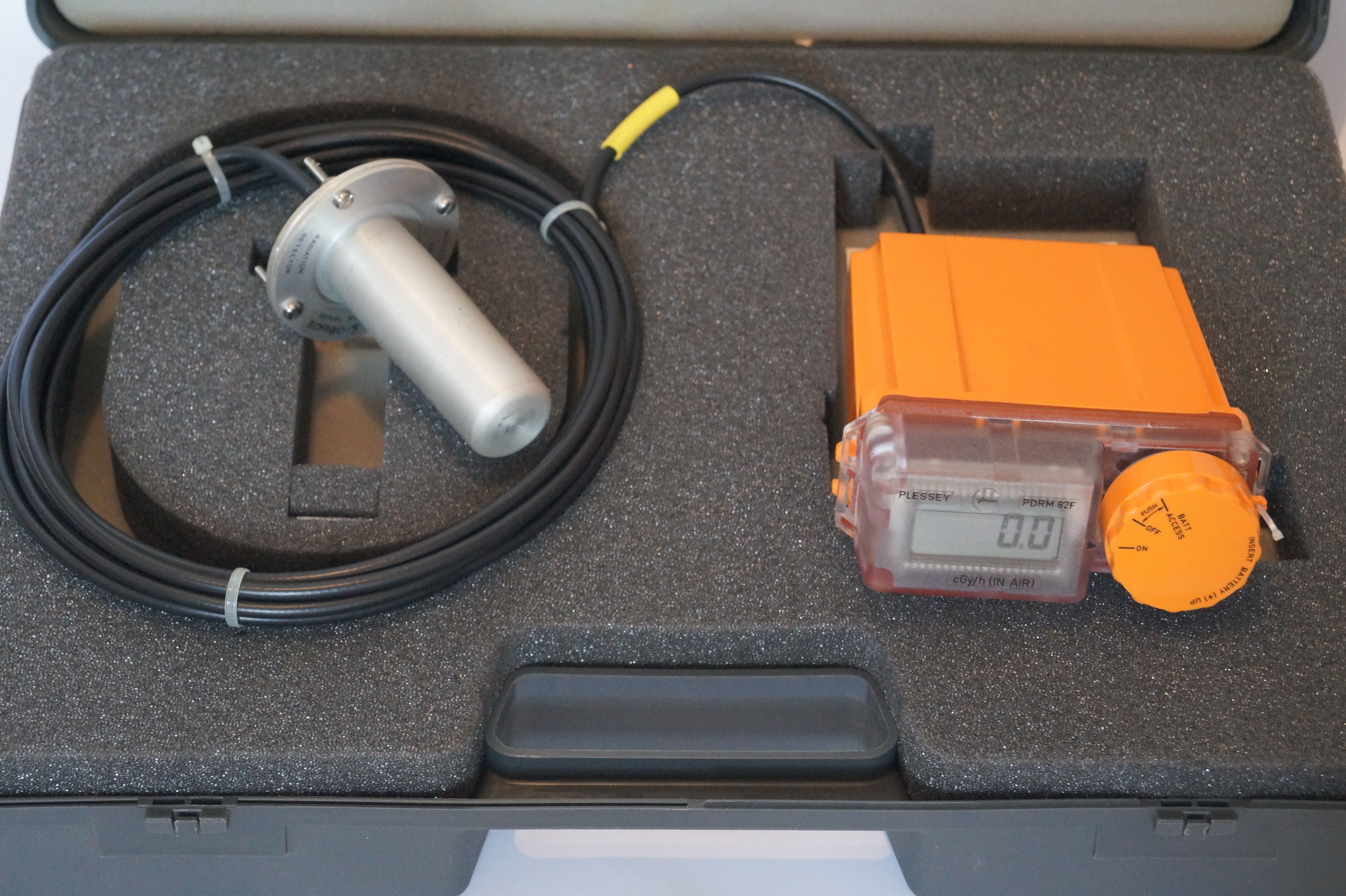 Photo showing the PDRM82F in its flight case.